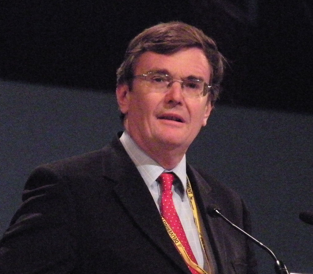 Matthew Oakeshott, Baron Oakeshott of Seagrove Bay, addressing a Liberal Democrat conference in the Bournemouth International Centre